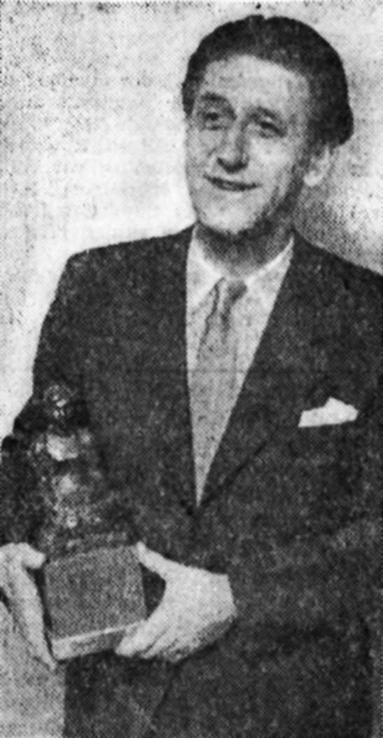 Newspaper photo of the Norwegian conductor and pianist Finn Audun Oftedal, with the newspaper Stavanger Aftenblad's artists' prize, December 1957